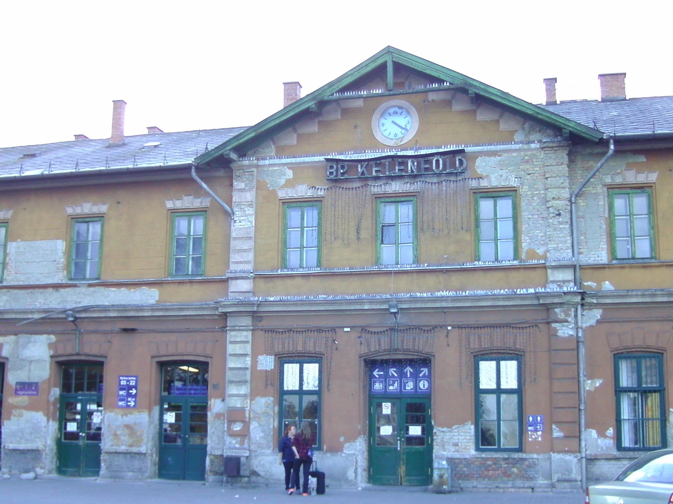 Kelenföld railway station building